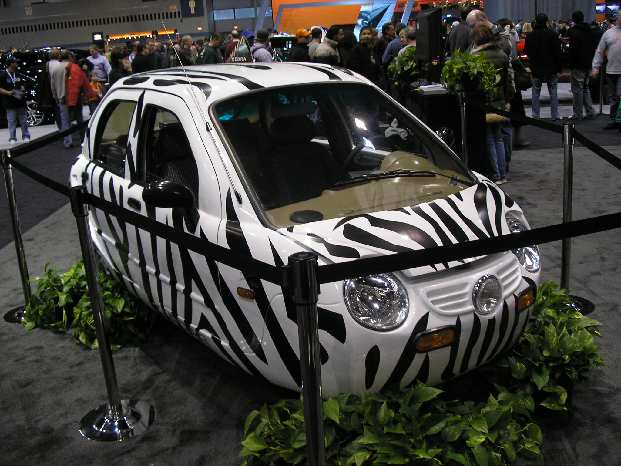 A "Zap" Concept at the Chicago Auto Show, 2007, held in the McCormick Place convention center.